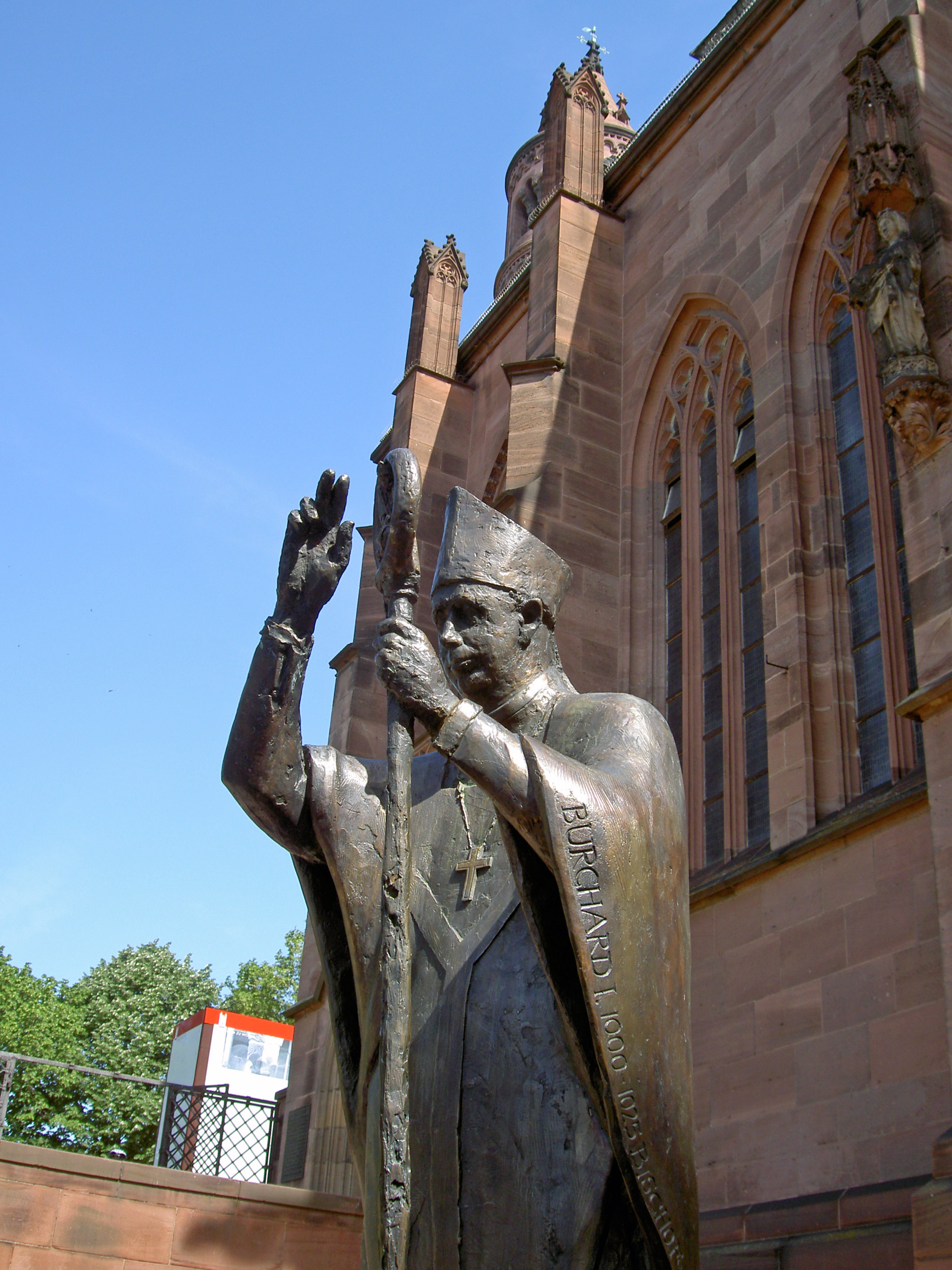 Germany Rhineland-Palatinate Worms Doom